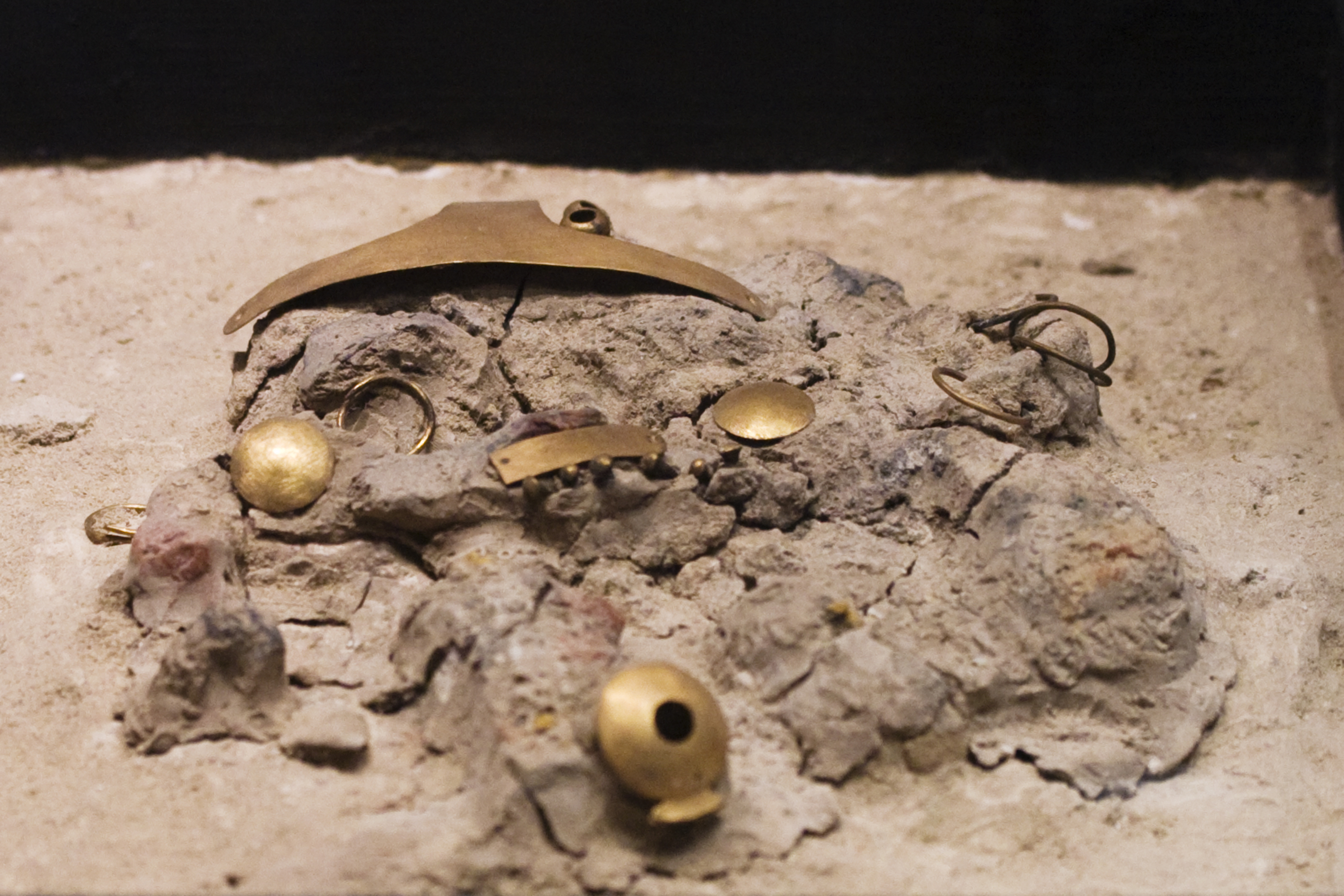 Replica of a symbolical burial of an antropomorphous face made from clay. The original was found at the Varna Chalkolithic Necropolis (grave 2) and dates to the fourth millennium BC.